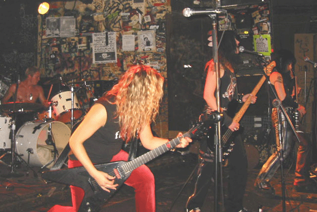 photo of the band taken by me, to be used in the infobox